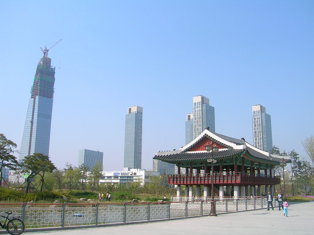 Song-Do Park in Song-Do City, South Korea.